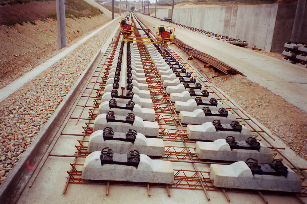 The ties of the Rheda 2000 slab track system before they are tightened on a concrete bed. (Nuremberg-Ingolstadt high-speed railway line)